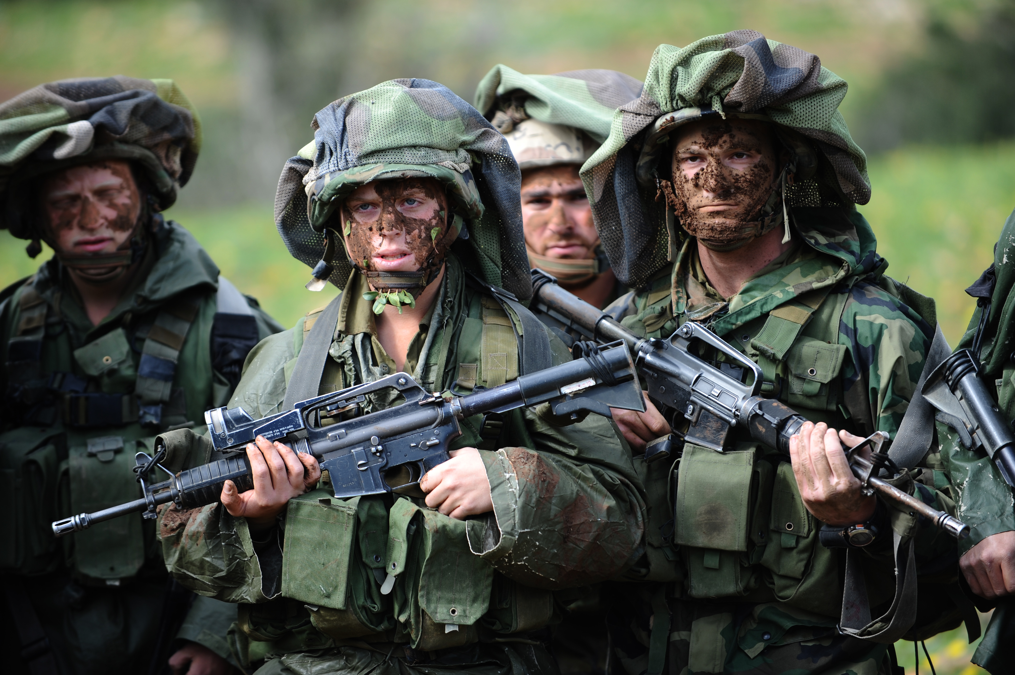 Nahal infantry brigade soldiers during a camouflage training course, learning warfare capabilities in complex, forested areas.